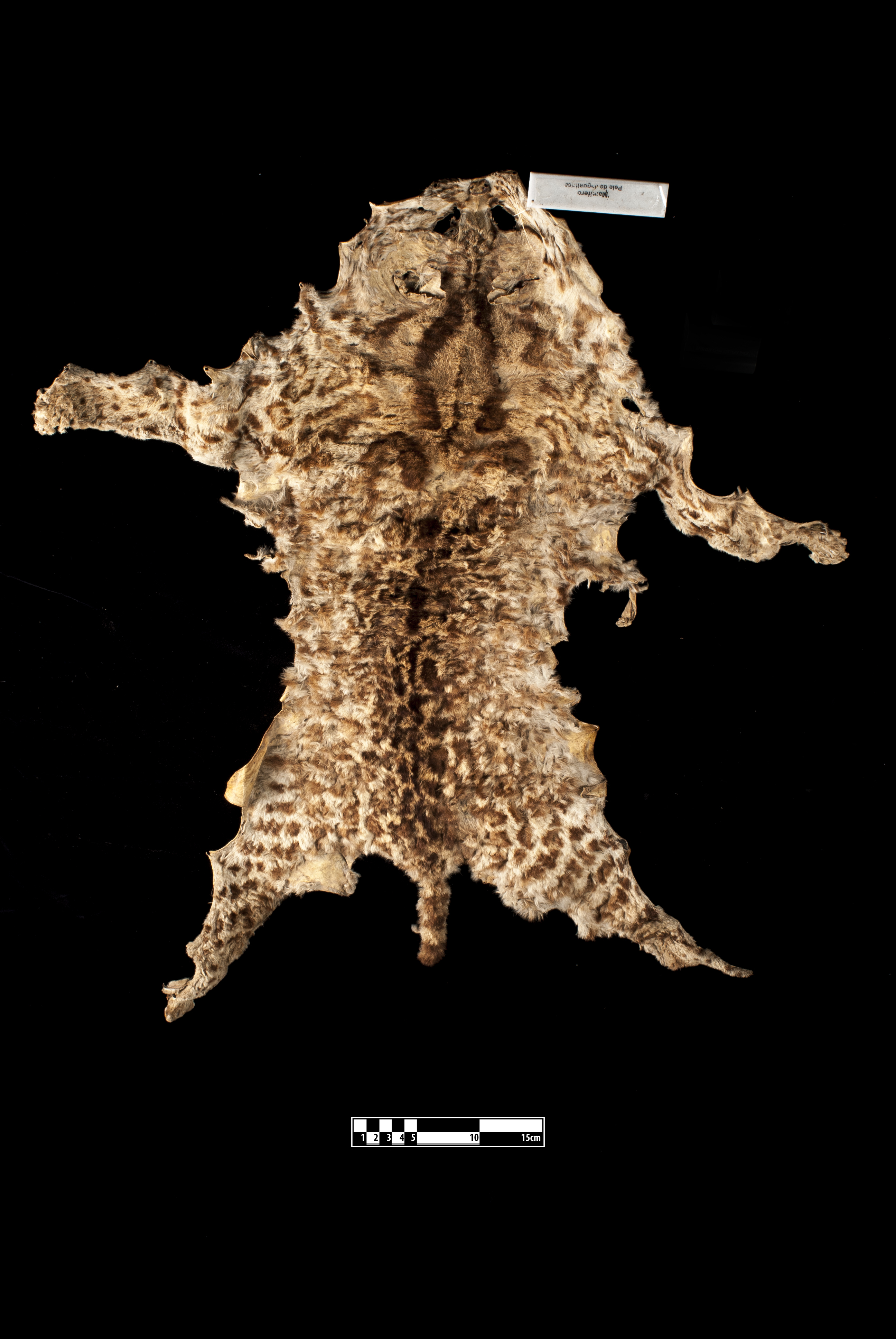 Ocelot (Leopardus pardalis). Taxidermy of a feline skin on display at the Museum of Veterinary Anatomy FMVZ USP. This file was published as the result of a partnership between the Museum of Veterinary Anatomy FMVZ USP, the RIDC NeuroMat and the Wikimedia Community User Group Brasil. This GLAM project is reported. Photography: Museum of Veterinary Anatomy FMVZ USP. Author: Wagner Souza e Silva.